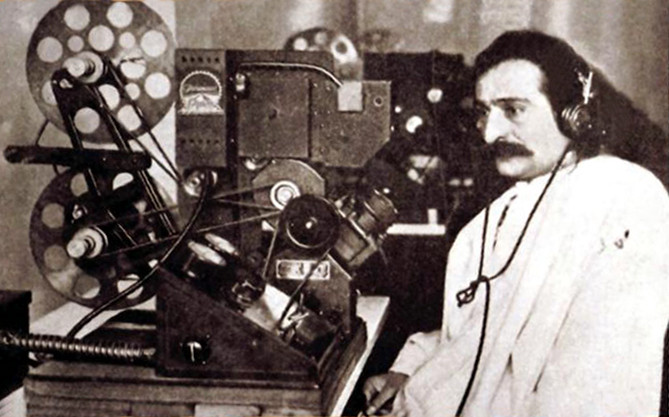 Meher Baba at Paramount Film Studio, Willesden, North West London, to view the newsreel of him taken in 1932. Photographed by Paramount Sound News.